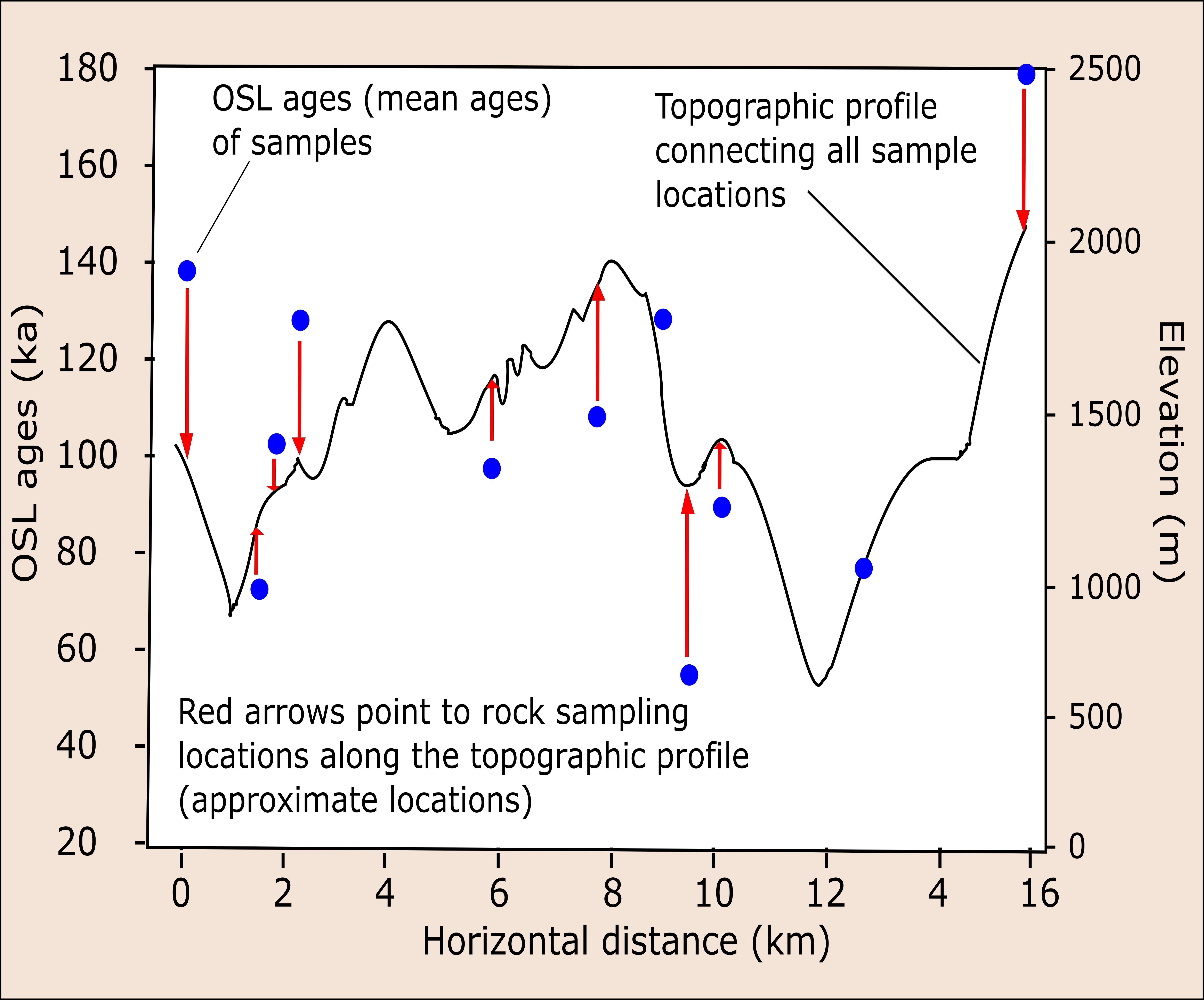 OSL age profile